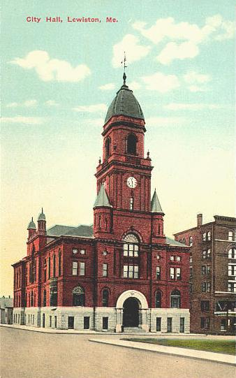 Lewiston City Building, Lewiston, ME; from a 1908 postcard. Designed by John Calvin Spofford, it was built in 1892. The tower stands 185 feet above street level. From a circa 1908 postcard.